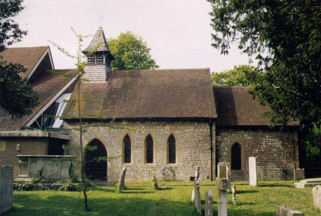 St Mary, Rowner Grade 1 listed building erected in the 13th century.